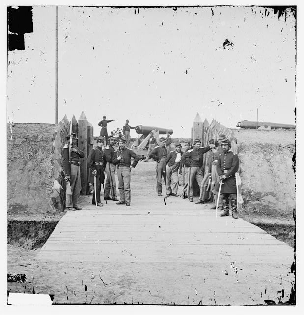 District of Columbia. Soldiers at gate of Fort Slemmer